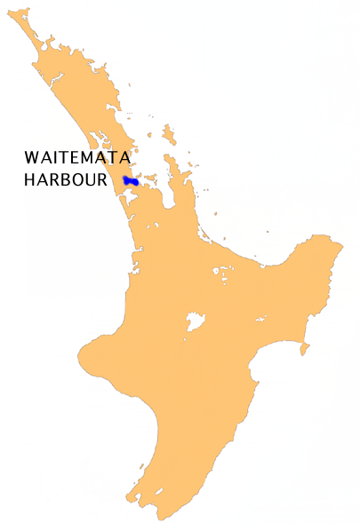 Location map of Waitemata Harbour, New Zealand